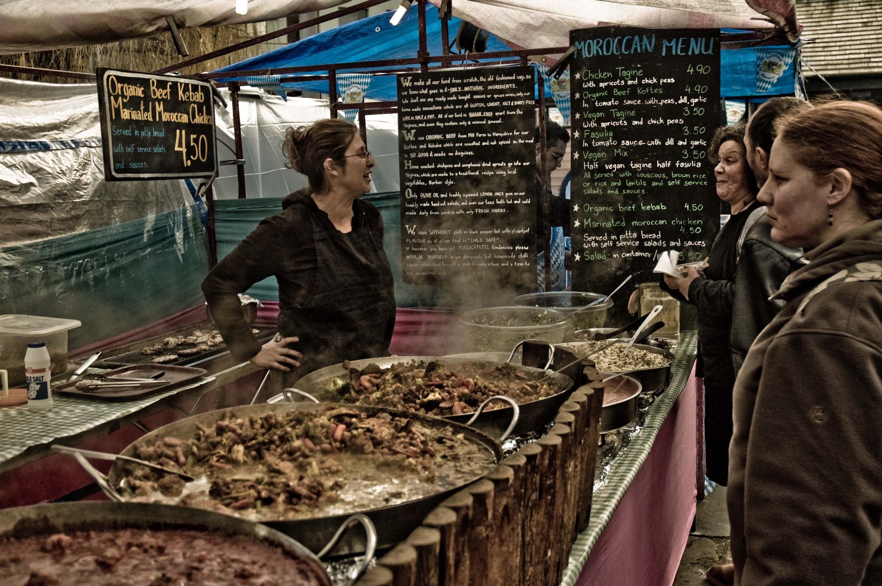 Customers looking to buy hot food from stall in Camden Market, London, England, UK.